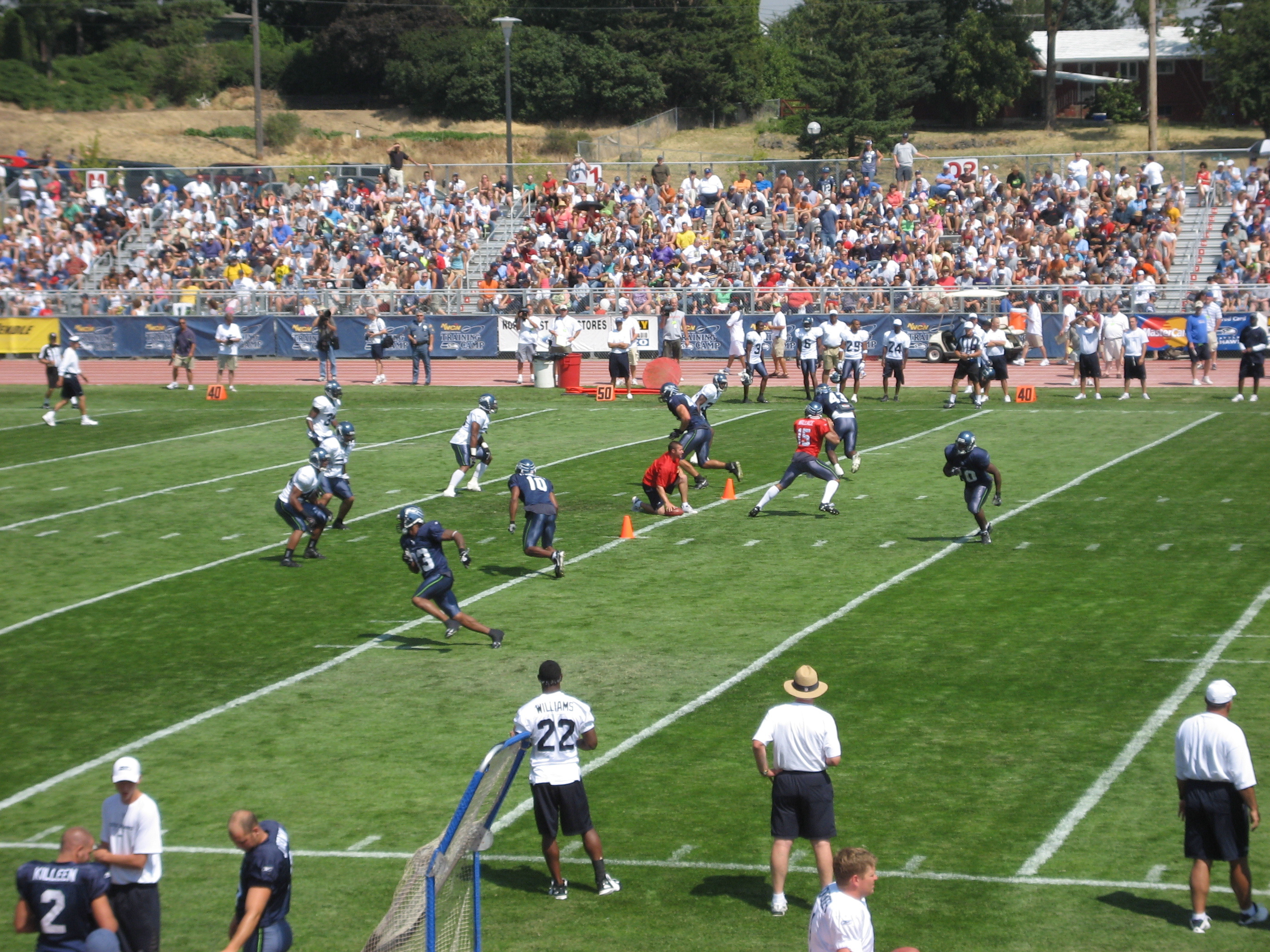 Picture of Seahawks Practice Scrimage at Eastern Washington University, Cheney Washington. Seneca Wallace in action.